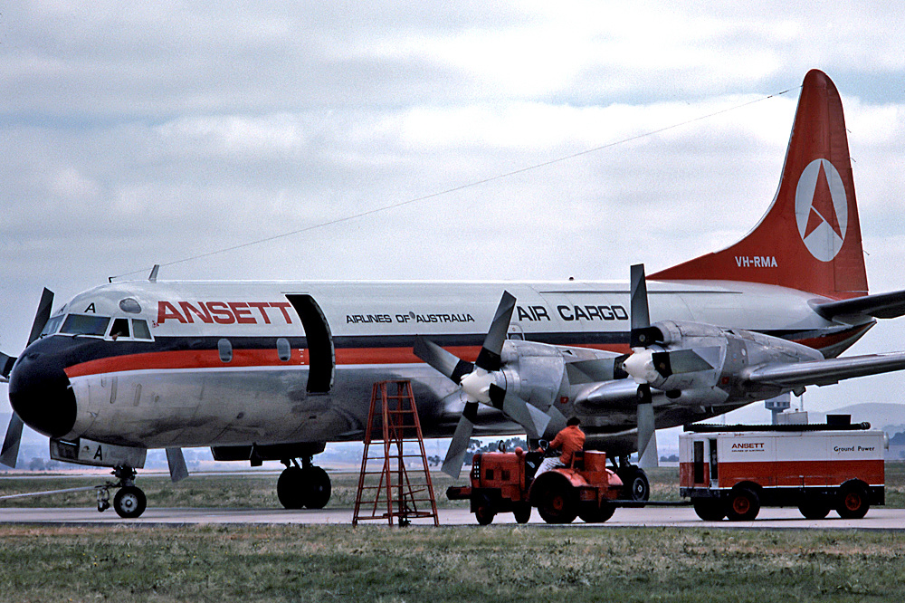 Ansett Airlines of Australia Air Cargo Lockheed L-188A Electra at Melbourne Airport